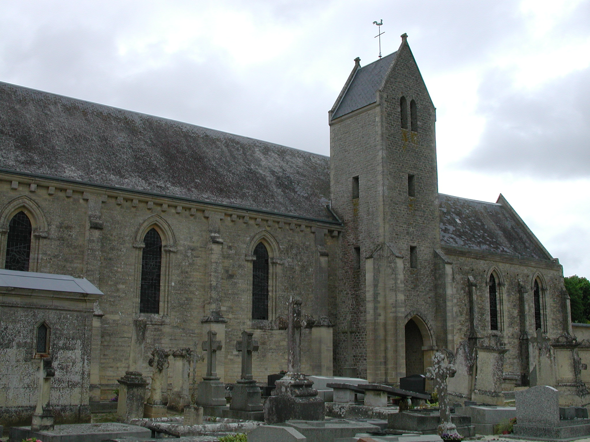 Image from the southwest-side along the length of the Church, with the spire near the center, and the graveyard in the foreground